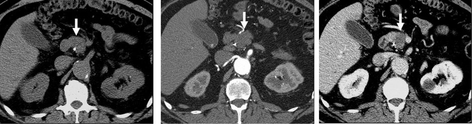 Non-contrast, early arterial, and late arterial phase CT of pancreas with hypoenhancing mass. For context, see Computed tomography of the abdomen and pelvis.